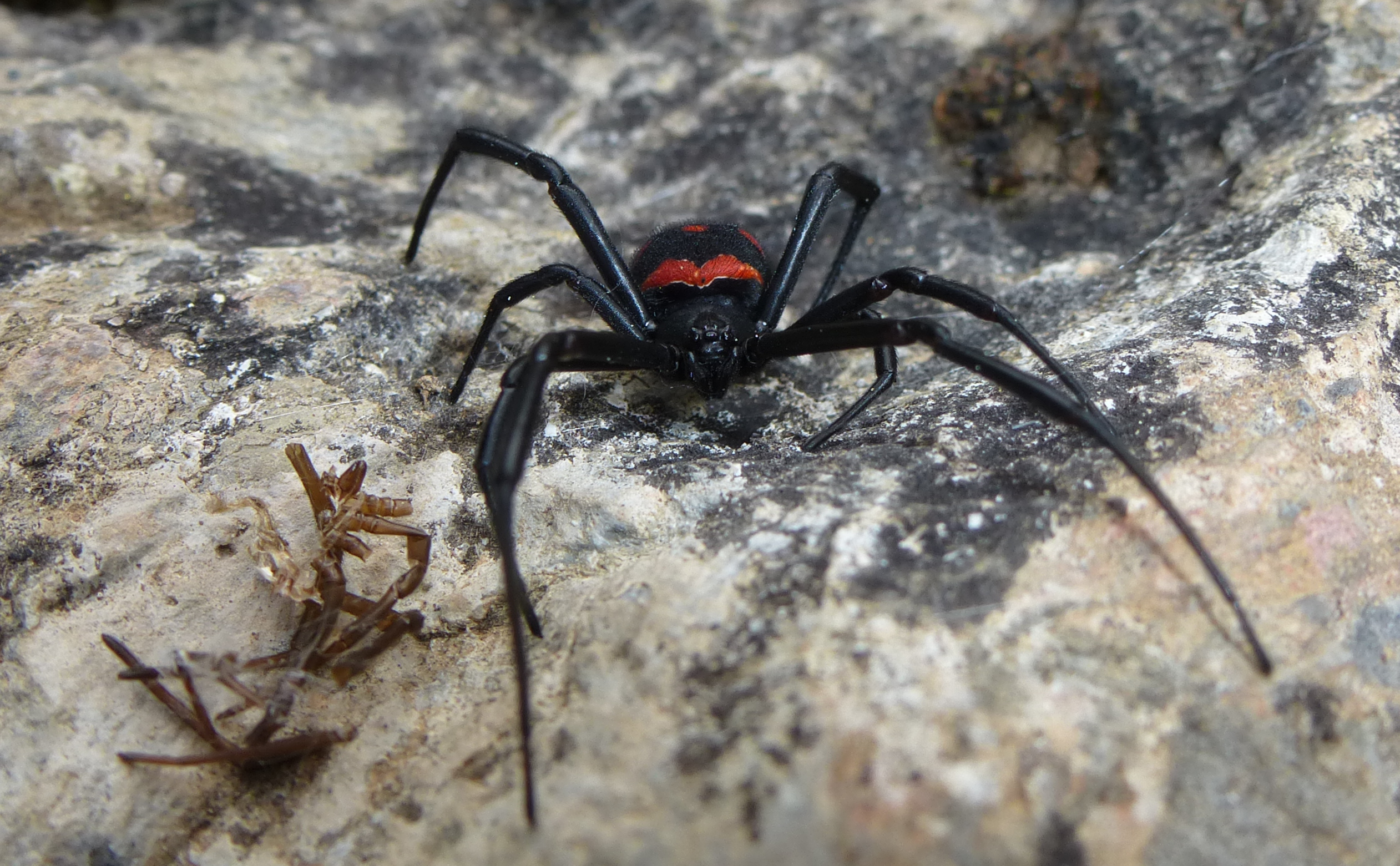 Female specimen of Latrodectus tredecimguttatus Rossi, 1790 (Europäische Schwarze Witwe, Mediterrenean Black Widow) found in Corte, Corsica.